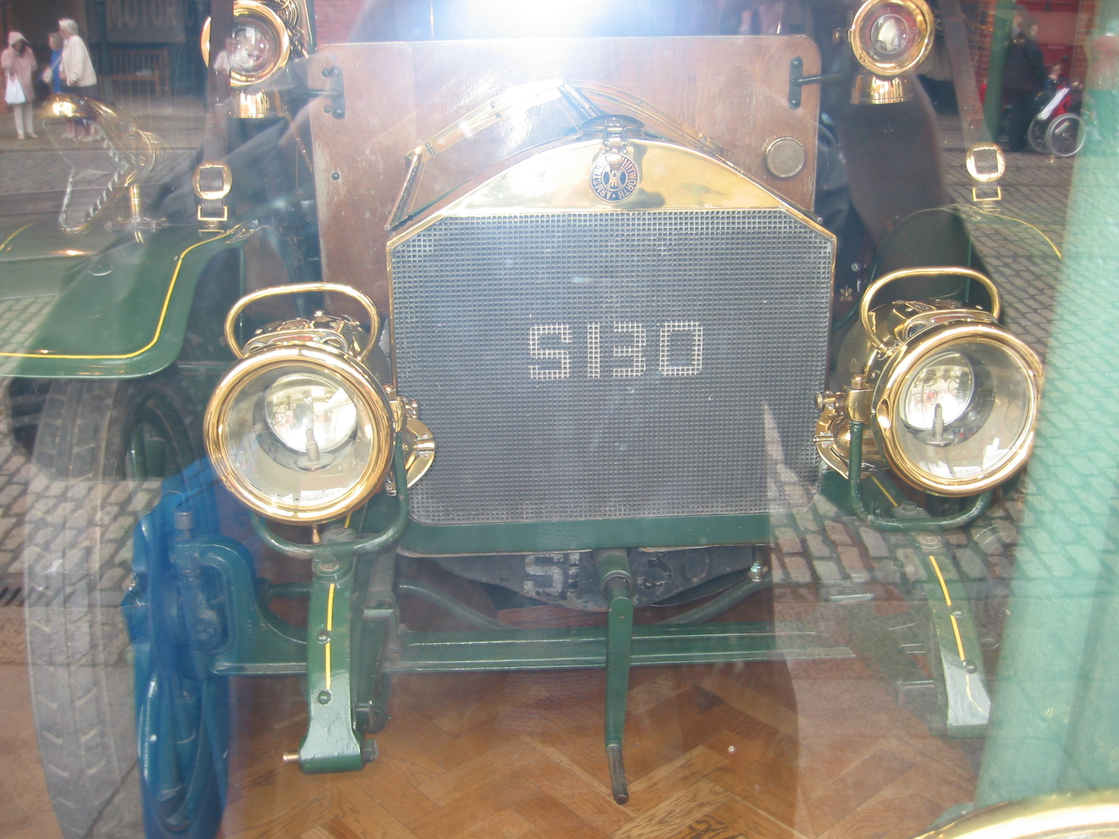 Beamish Museum, County Durham, England. This 1908 Armstrong-Whitworth limousine (reg. S 130) is on display in the showroom front window of Beamish Motor and Cycle Works, on the south side of the main street in the Town.